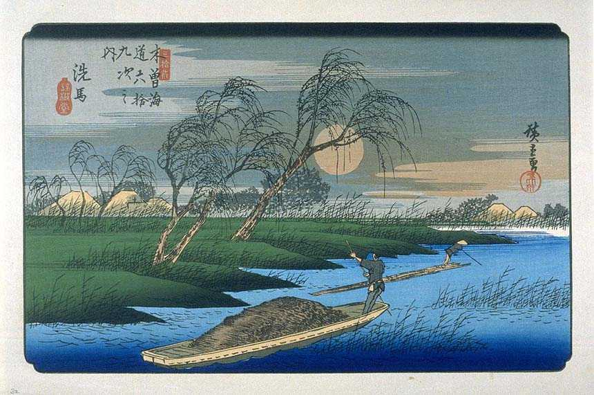 Seba on the Kisokaido, ukiyo-e prints by Hiroshige